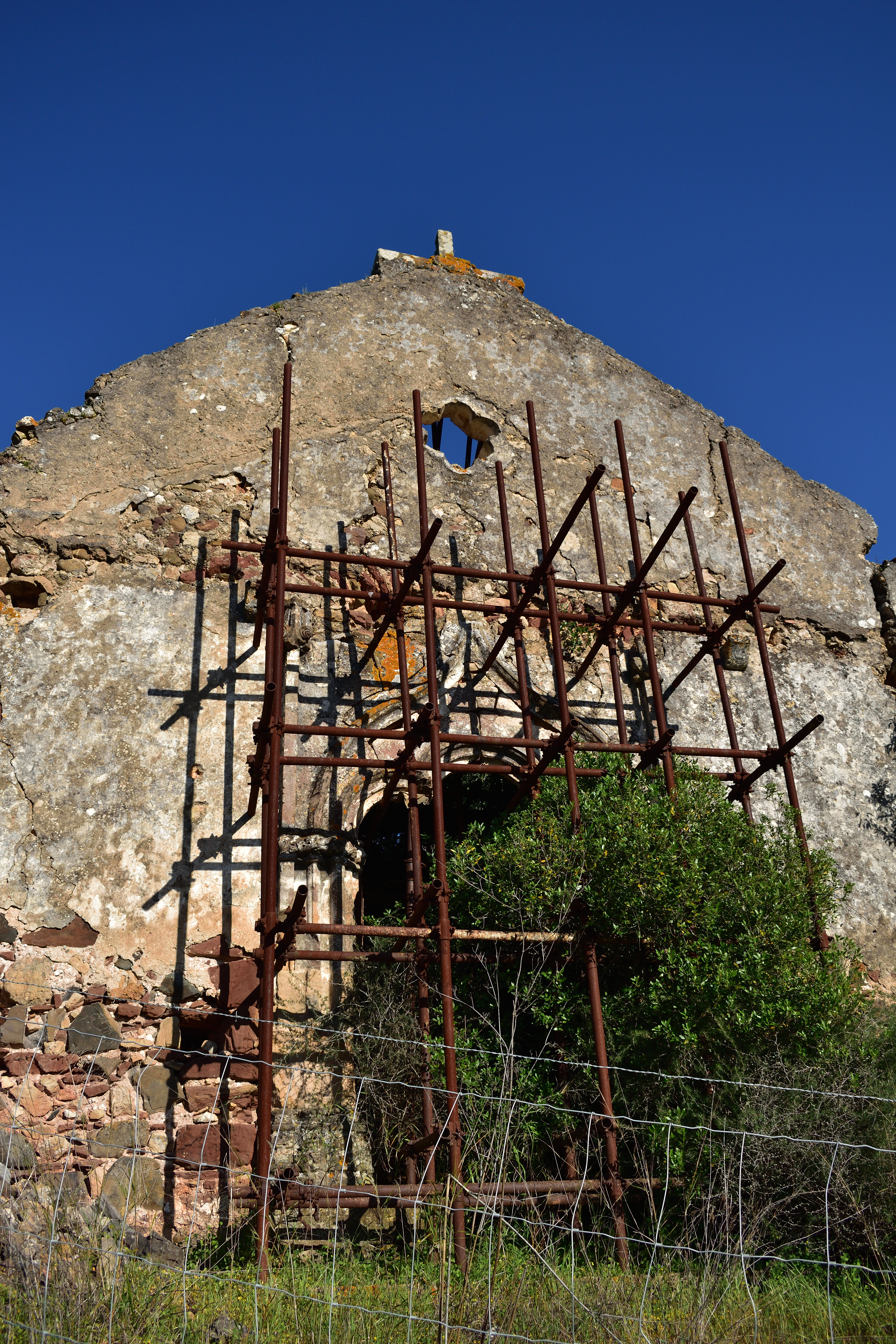 Main facade of Senhora do Verde church, in Algarve, Portugal.